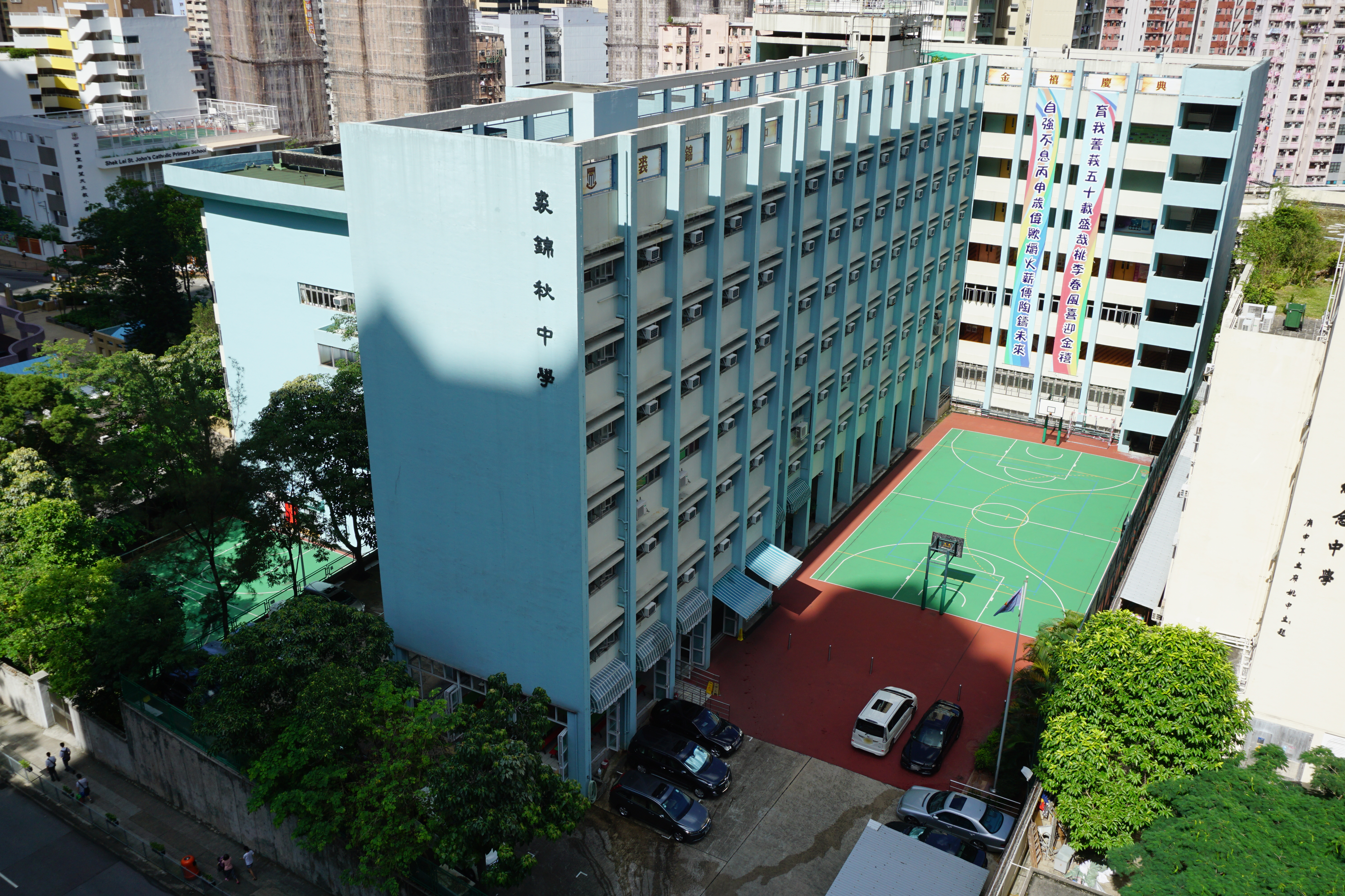 Ju Ching Chu Secondary School in Kwai Chung, Hong Kong.